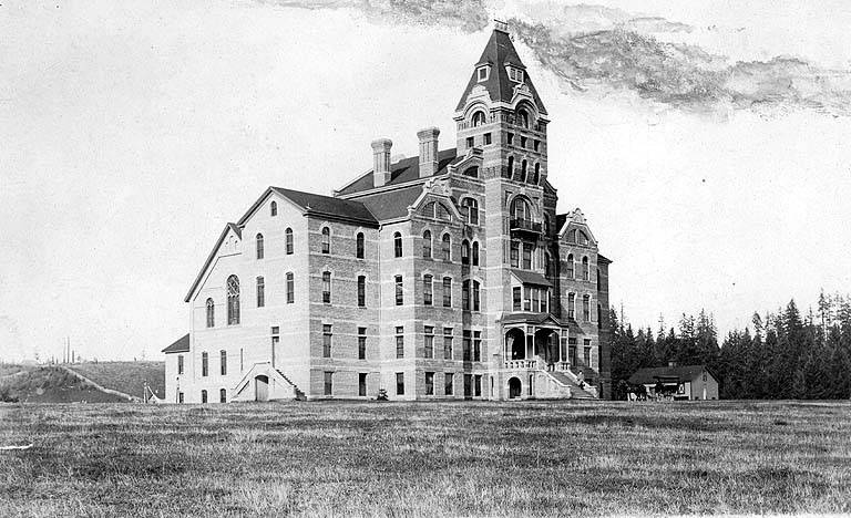 On verso of image: State School for Defective Youth at Vancouver, Wash. PH Coll 334.Hofsteater 7 Subjects (LCSH): Institute for Defective Youth (Vancouver, Wash.); Schools--Washington (State)--Vancouver; Public institutions--Washington (State)--Vancouver